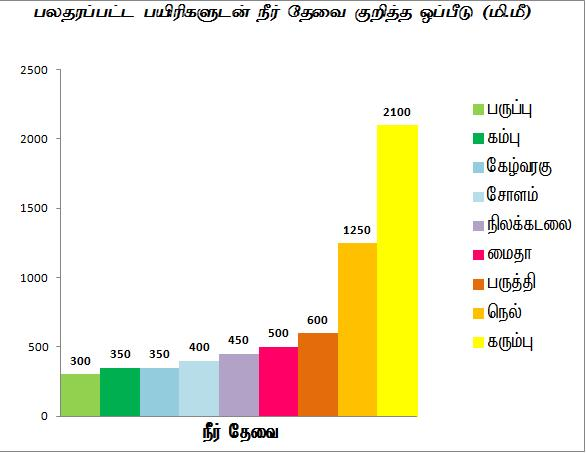 Comparison of water needs of millet w.r.t cash crops like rice and sugarcane.